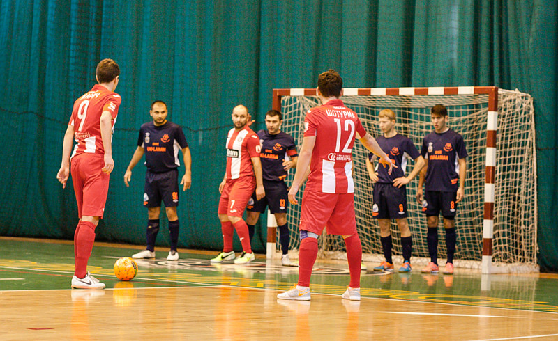 Scenes from the match Uragan - Uni-Laman (2016/17)